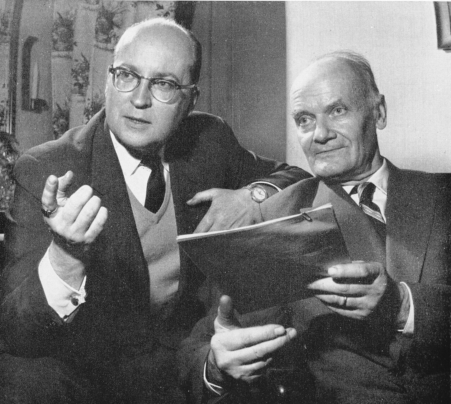 Left: Swedish journalist Curt Falkenstam, born 1918, deceased 1994 Right: Swedish police officer and SOCO (Scenes of crime officer) Otto Wendel, born 1898, deceased 1985